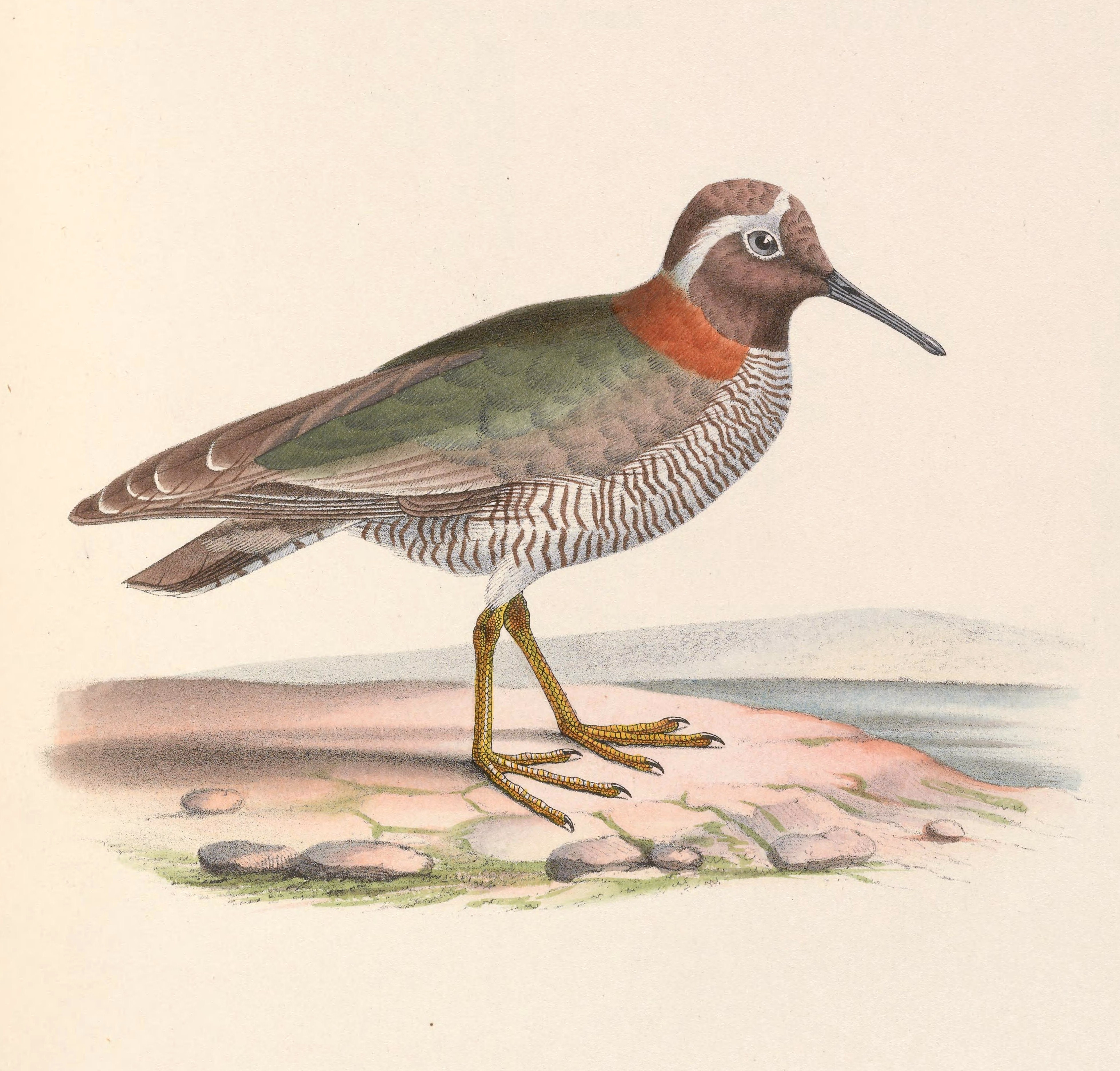 Leptoscelis mittchellii = Phegornis mitchellii (Diademed Plover)